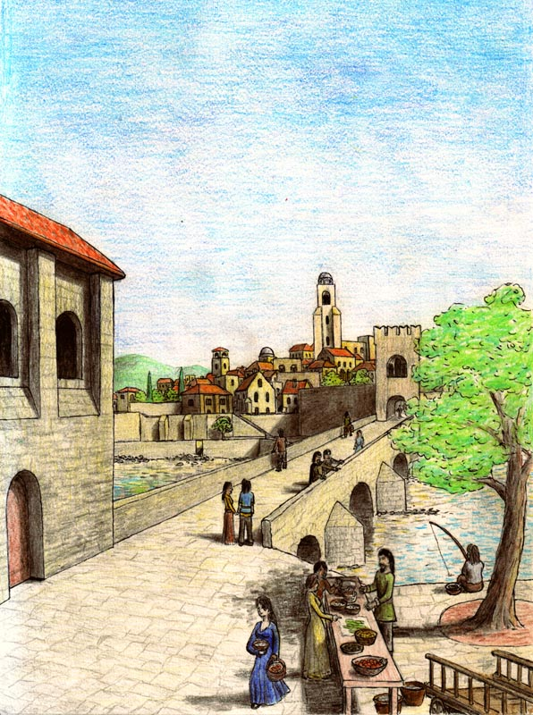 Ethring, a settlement in Gondor